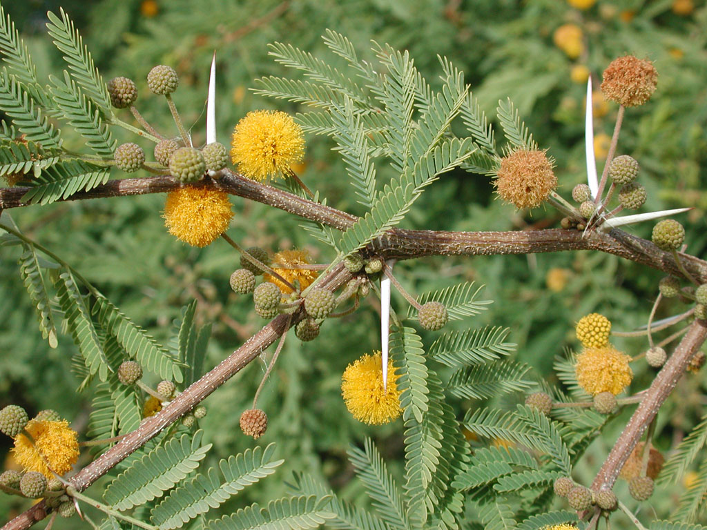 Acacia farnesiana Sweet Acacia. Along the Salt River in Phoenix, Arizona, USA.